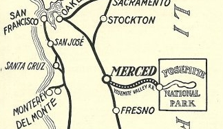 Flyer with map and schedule for the Yosemite Valley Railroad for 1915-1916.